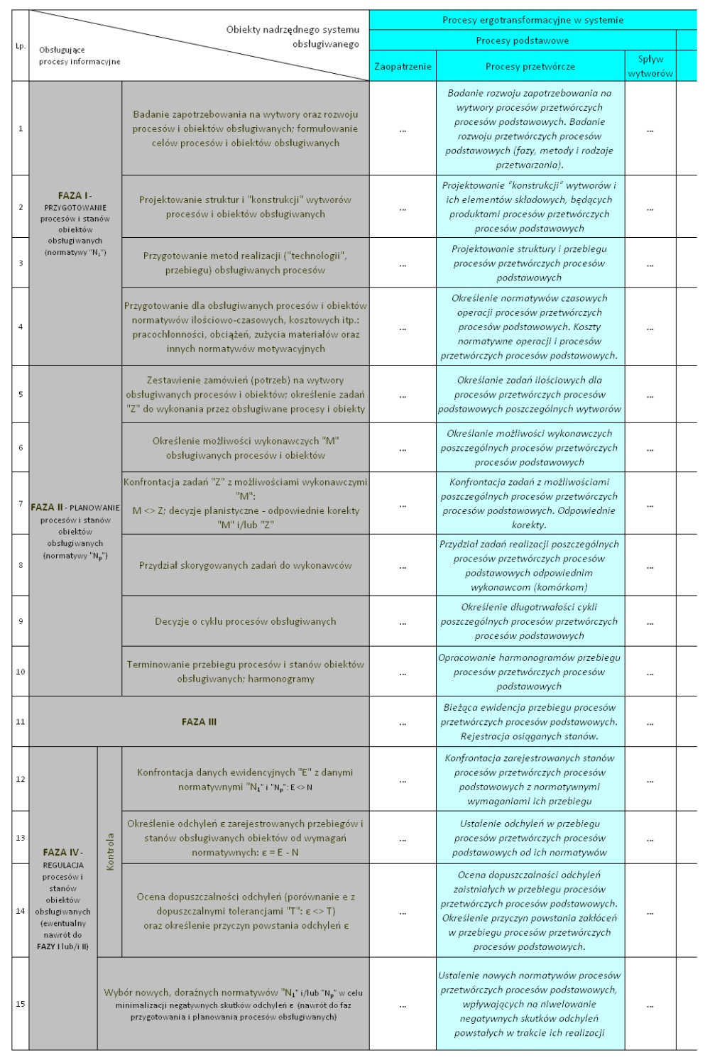 Table 4. Subsequent phases of any Information Process